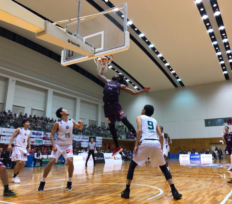 Chukwudiebere Maduabum here scoring during a game.